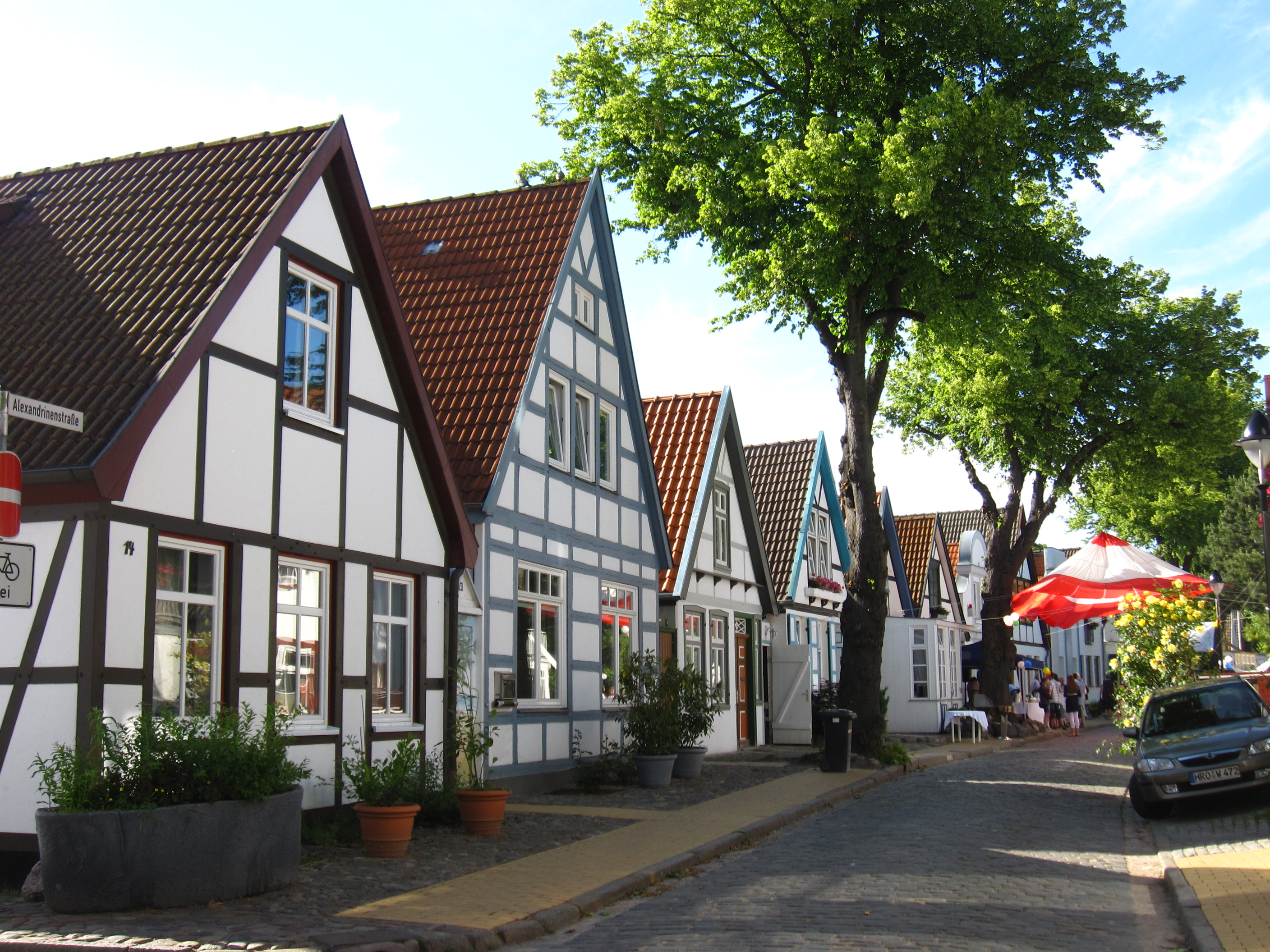 Alexandrinenstrasse in Warnemünde